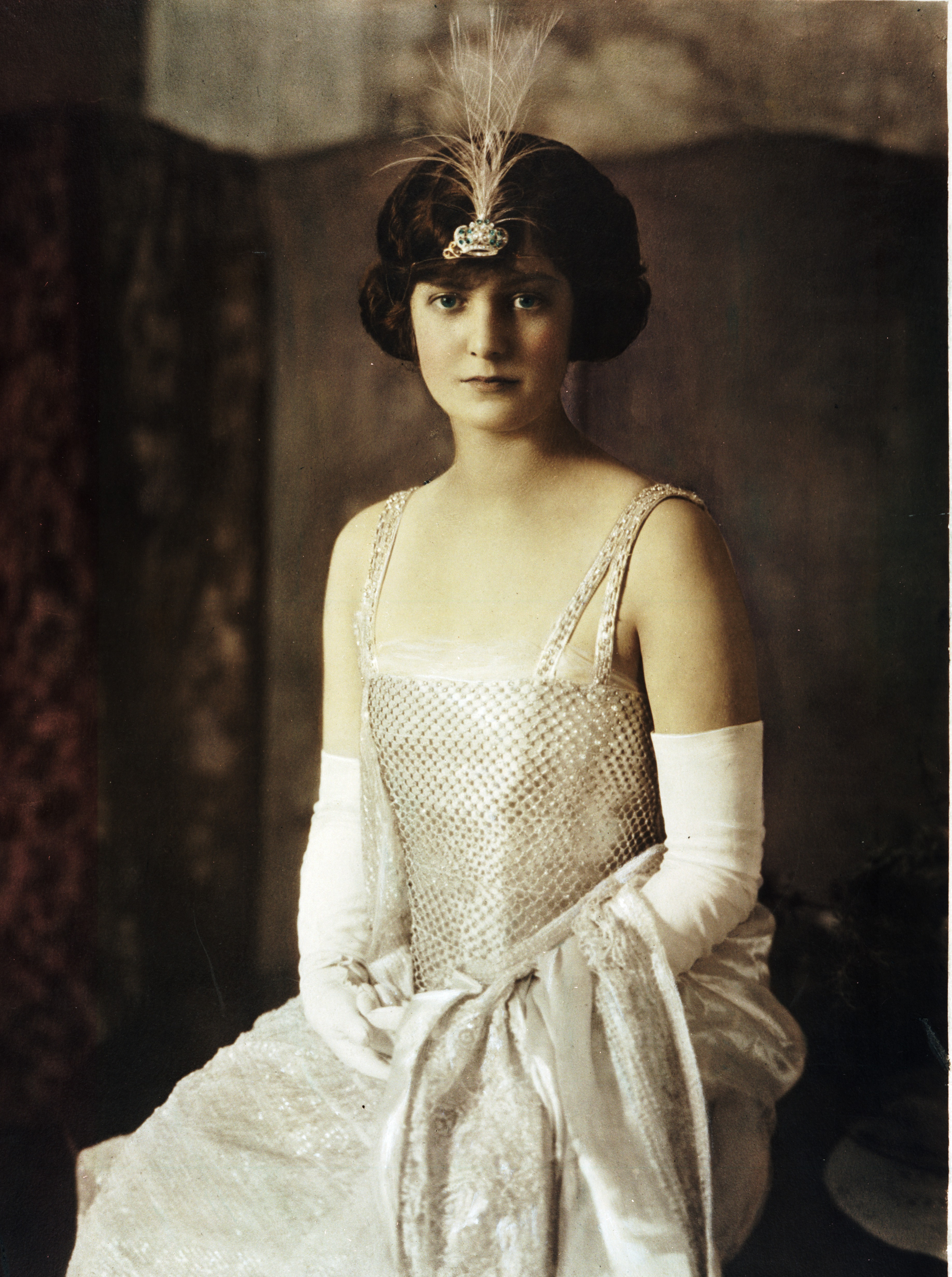 Title: Eleanor Simmons. 1921 Veiled Prophet Queen.